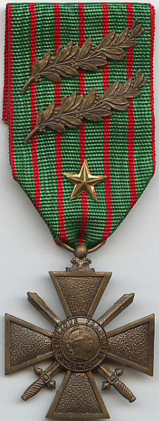 French Croix de guerre 1914-18